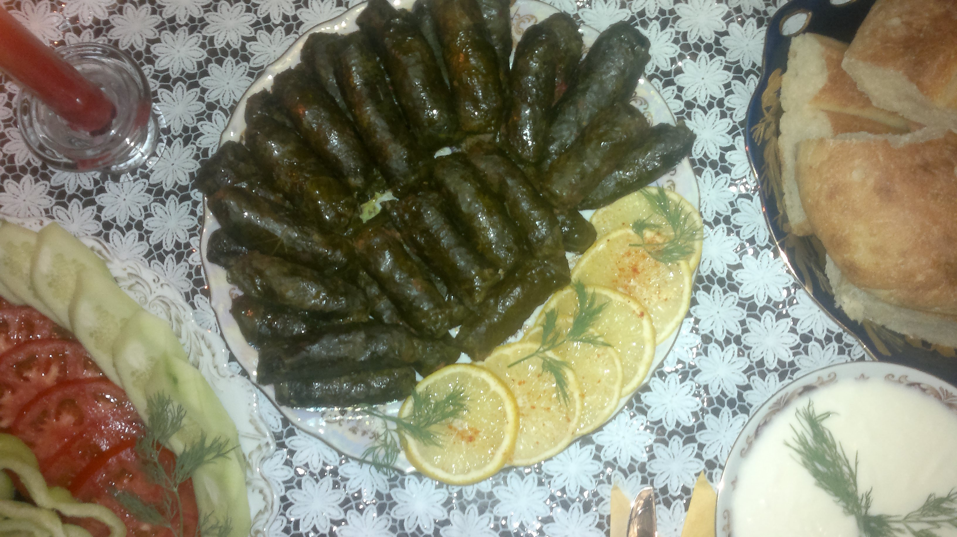 Armenian dish - Dolma (after cooking)